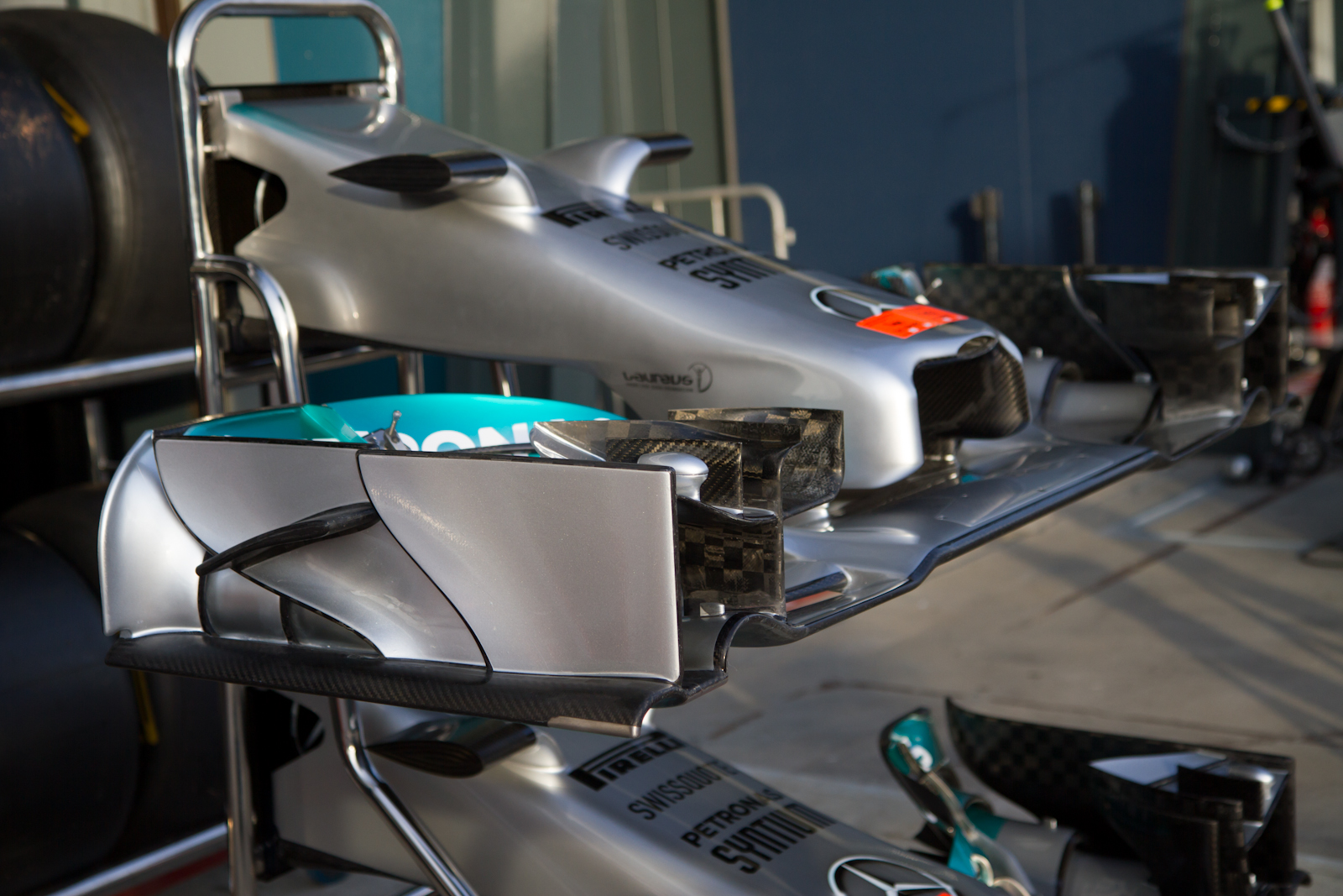 2014 Australian F1 Grand Prix